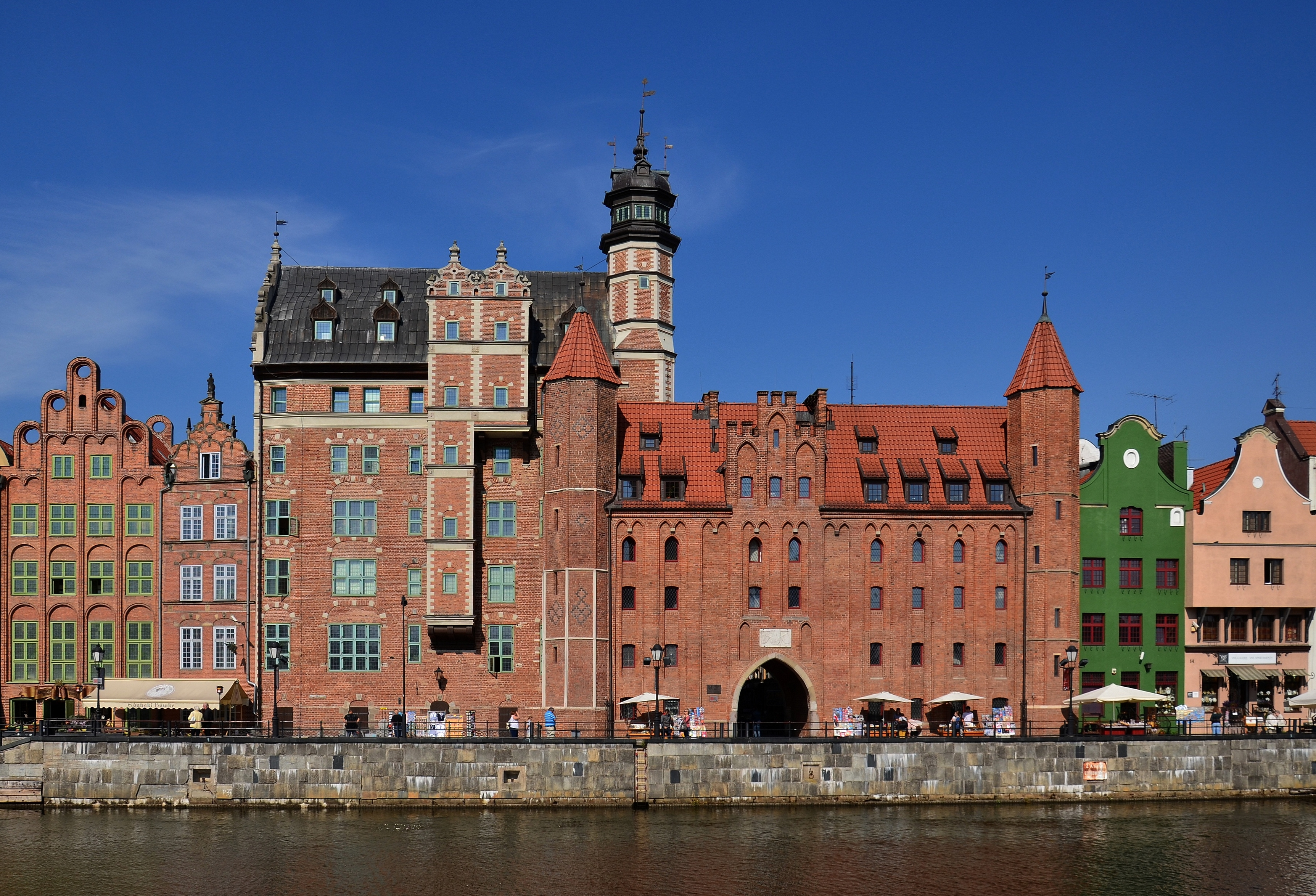 Gdańsk, Mariacka Gate